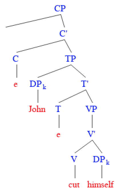 For Pronoun wiki page, showing examples for the binding and antecedents section